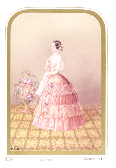 Jetty Treffz (1818-1878), the first wife of the Viennese composer Johann Strauss, shown here in her youth.]